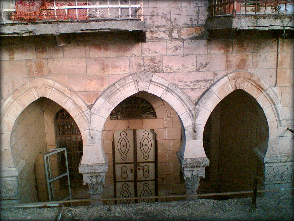 Old Arabian Building in Hebron city